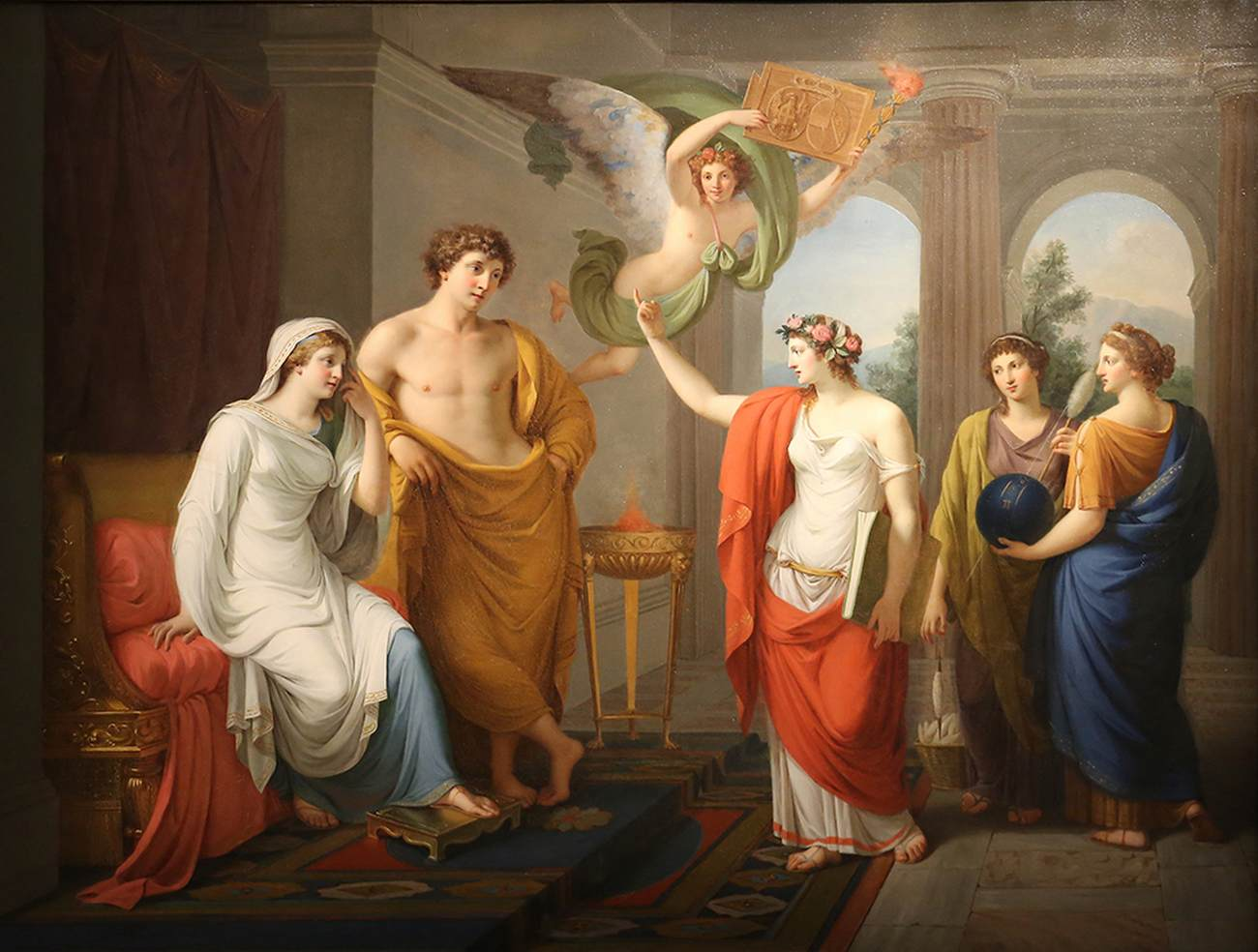 The Wedding of Peleus and Thetis - Oil on canvas - Galleria Sabauda, Turin